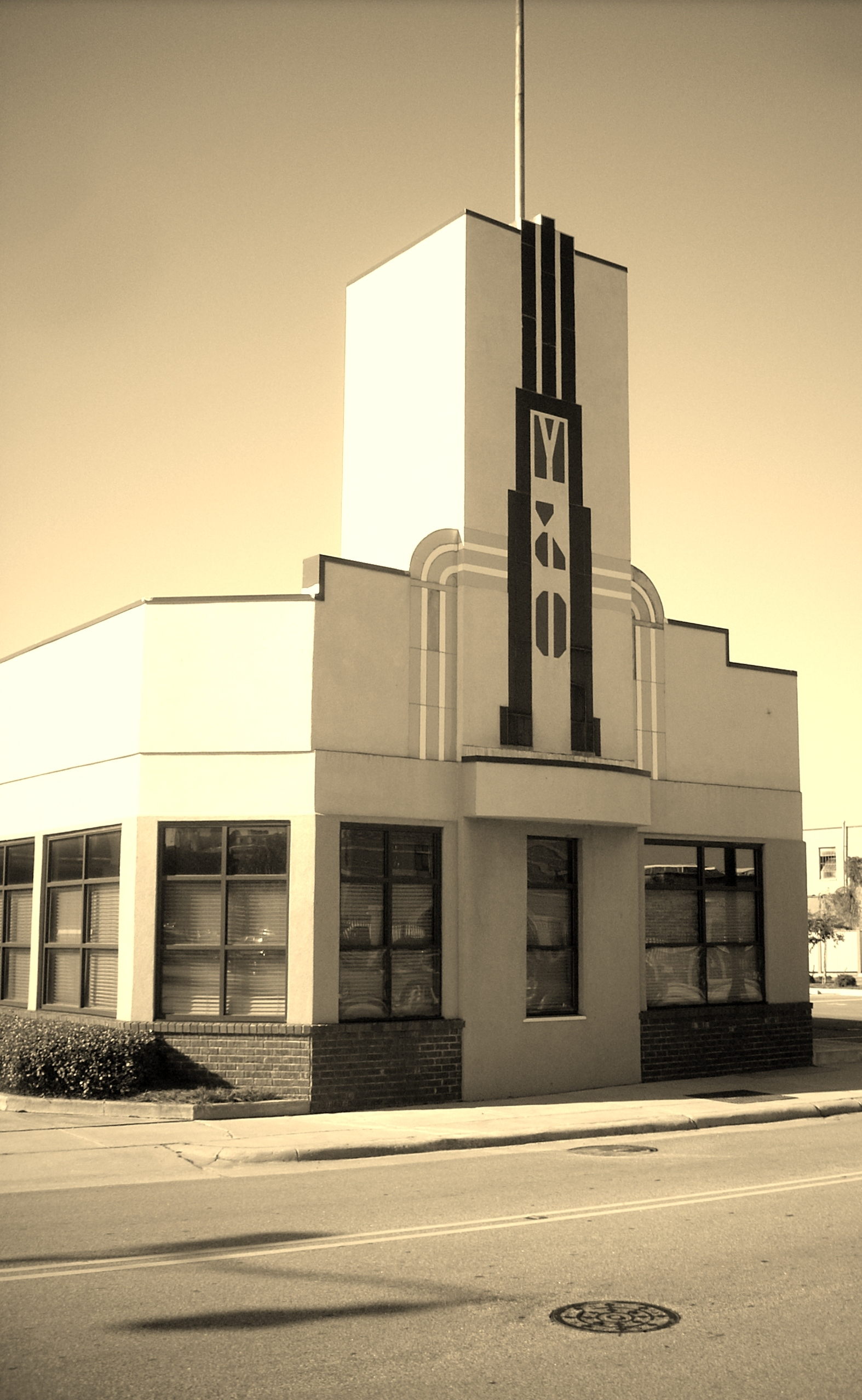 I don't know how many times I looked at this building trying to figure out the lettering on it. It was the store front for the former M&O Chevrolet on Frankling Street in Fayetteville, Cumberland County, North Carolina